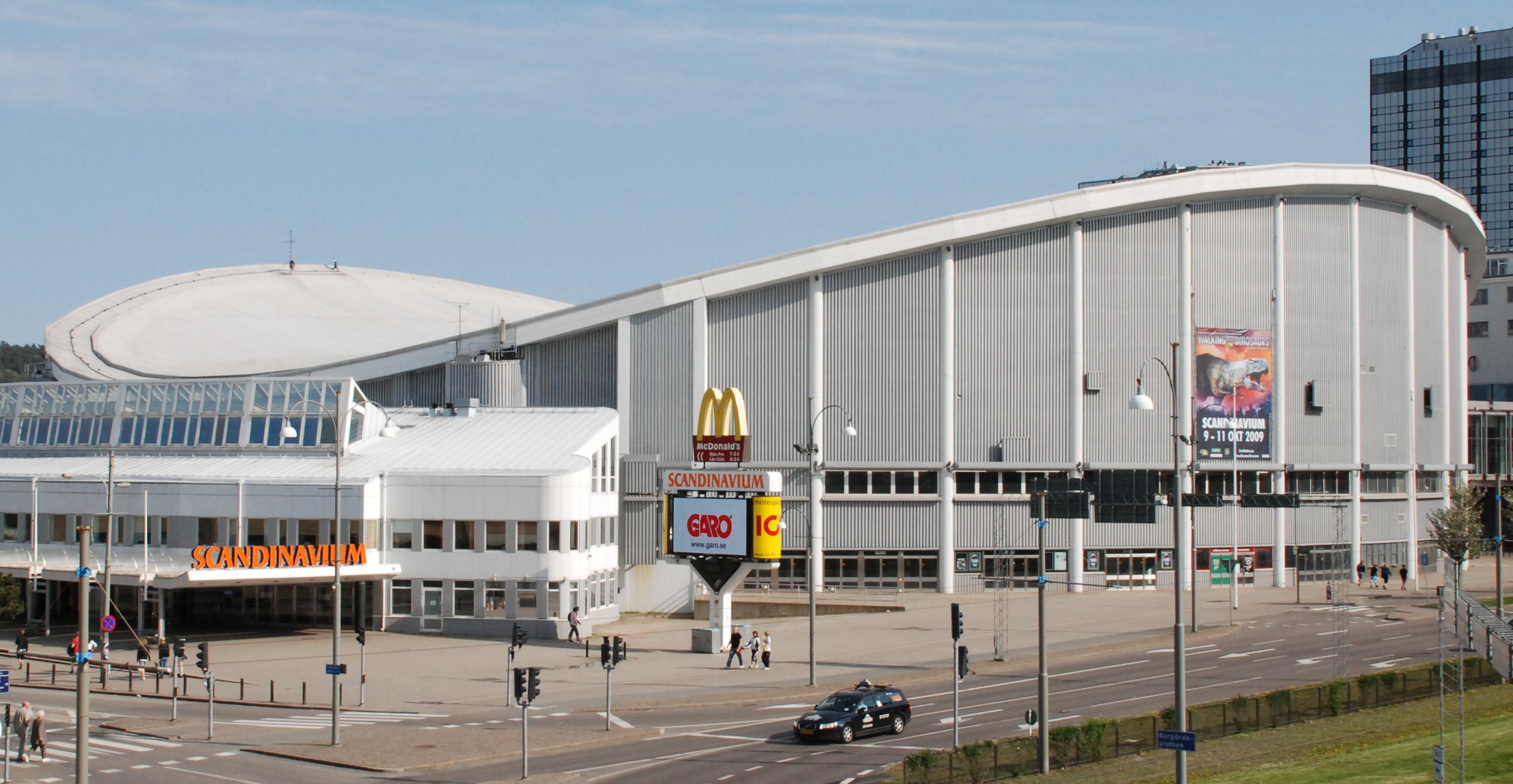 The Scandinavium Arena in Gothenburg, Sweden (Northern Europe).